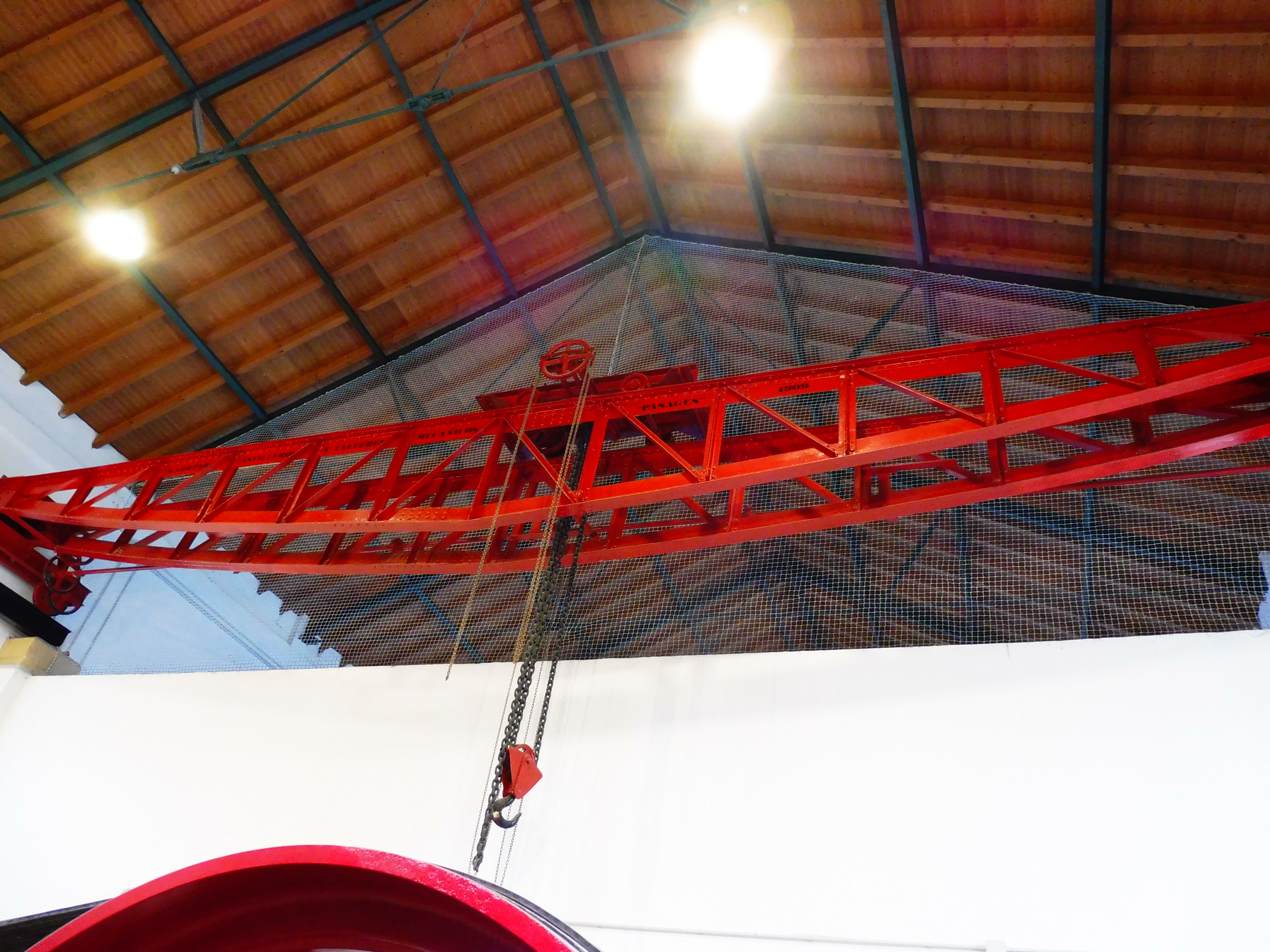 1861ean sortu zen Donostiako Udal Gas Lantegia eraitsi ondoren gasometroa eta gasomotorea besterik ez dira gelditzen Morlansen. 2010. urtetik hona gasomotorra, Amara Berri ikastetxearen gimnasioaren barruan dago / Los únicos restos que permanecen en Morlans de la antigua Fábrica de Gas Municipal fundada en 1861 y que fue demolida son el gasometro y el gasomotor. Desde el 2010 el gasomotor está situada dentro del gimnasioa de la Escuela Pública Amara Berri. Colección Amarauna Bilduma. -- 2018-- Argazkilaria / Fotógrafo: Donostia Kultura. --Informazio gehiago: Amarako Ernest LLuch Kultur Etxeko Liburutegia / Más información: Biblioteca del Centro Cultural Ernest LLuch R. 1437